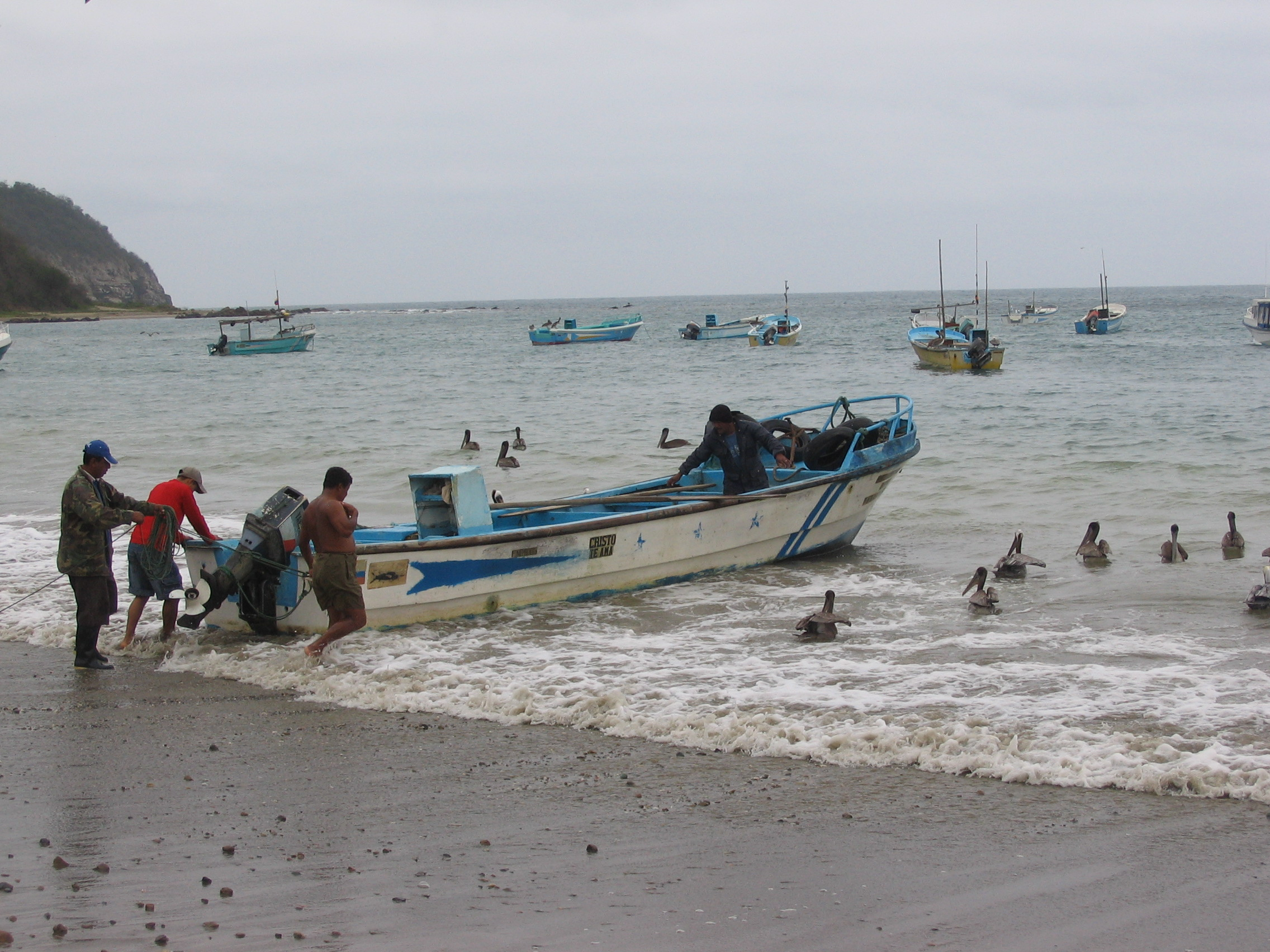 Fisherman leaving the harbor of Puerto Lopez, Ecuador